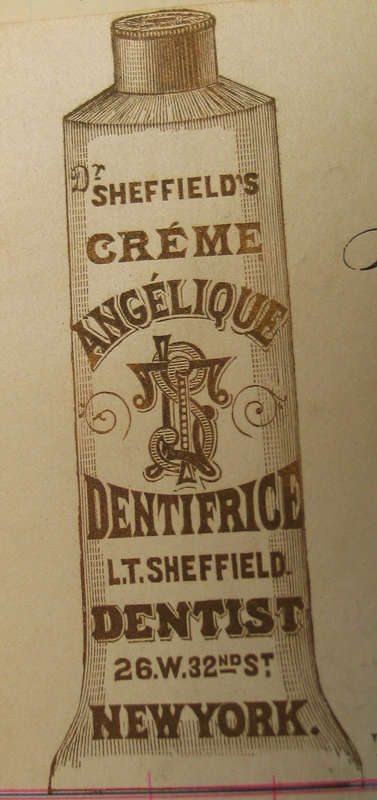 Dr. Sheffield's First Toothpaste - Crème Angèlique